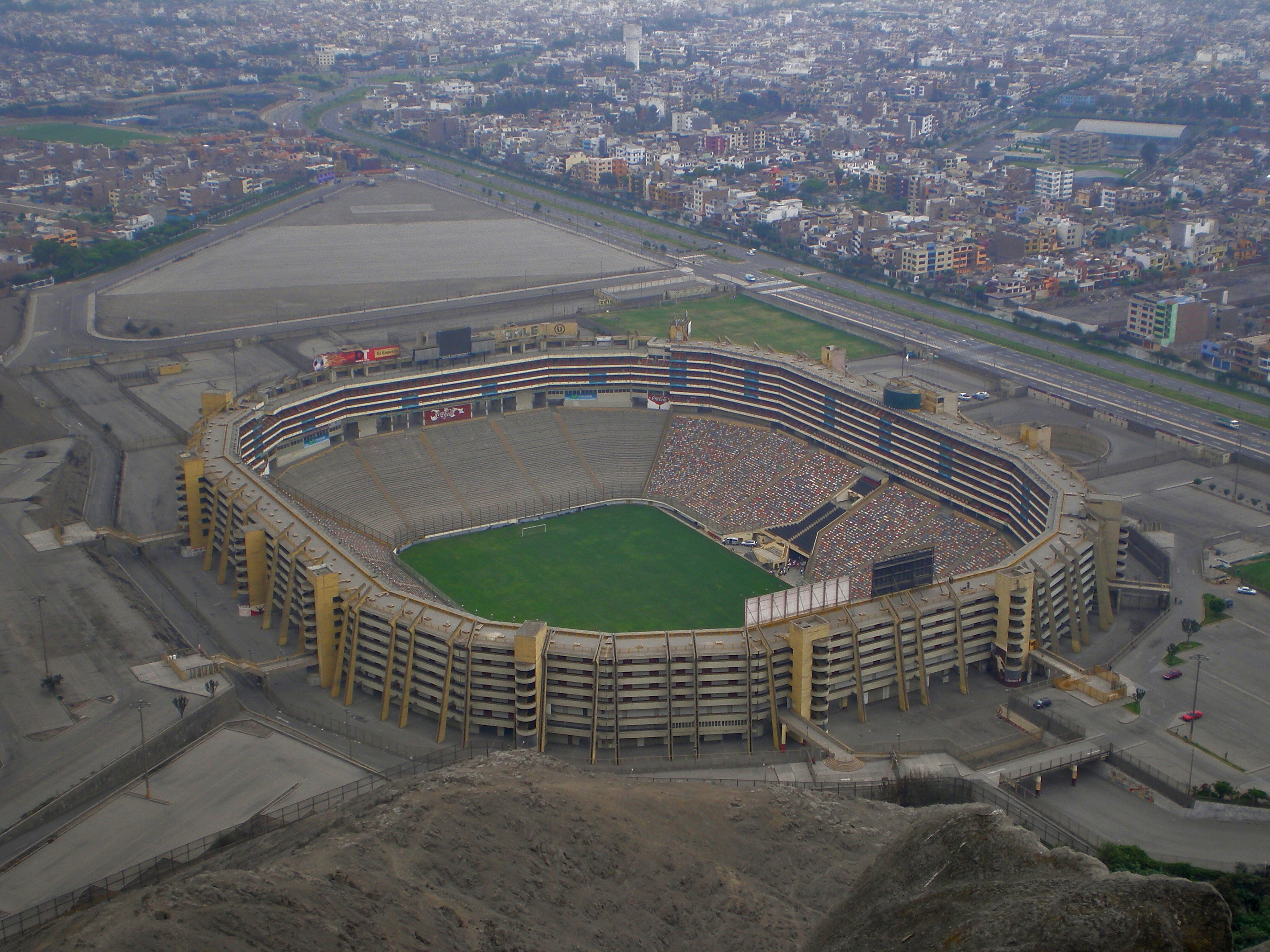 A panoramic view of the Estadio Monumental in Lima, Peru